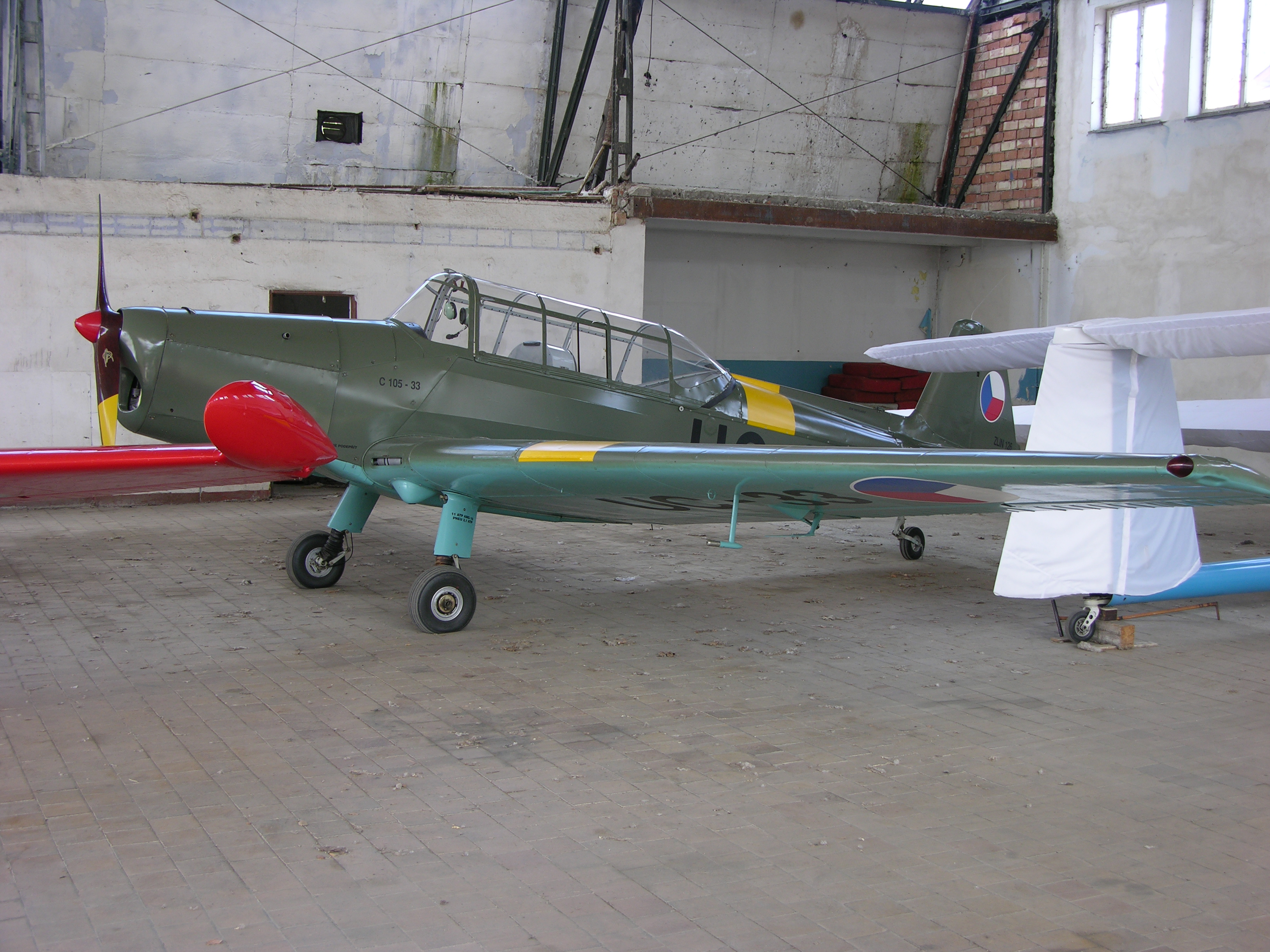 23-Jun-07 at Olomouc Neredin Former Czechoslovak Air Force Zlin 126 UC-33 now registered OK-IHK. There aren't many of these left.